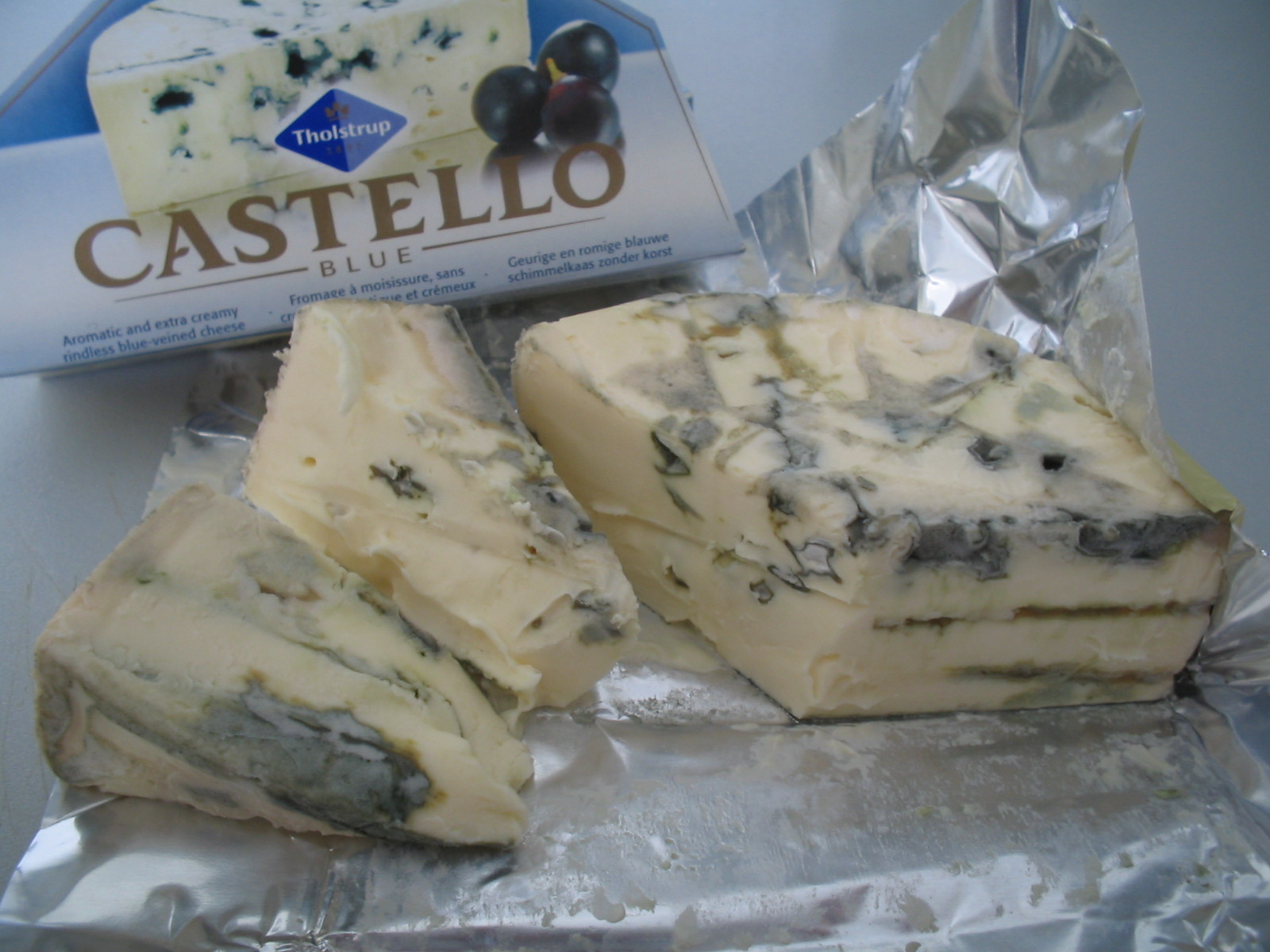 own picture of castello Blue Cheese.